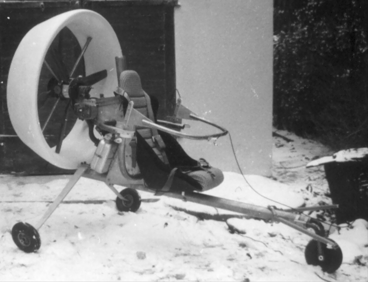 Engine Powered Parachute Wing PARAFAN, 1986 (main designer: Marek Debski D.Eng.)